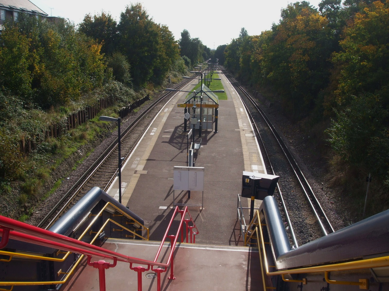 St Helier station looking south from staircase